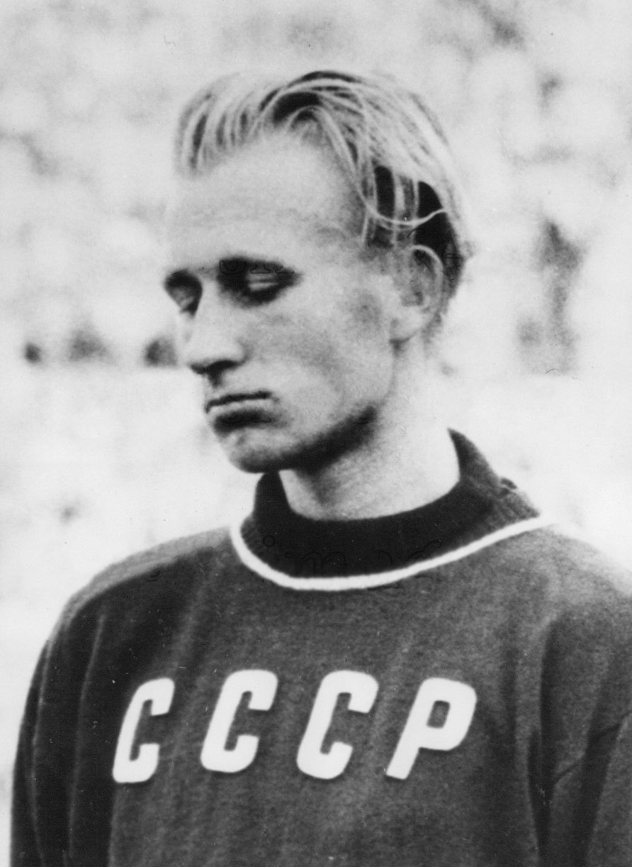 1952 Olympic Athlete Bruno Junk of Estonia Press Photo